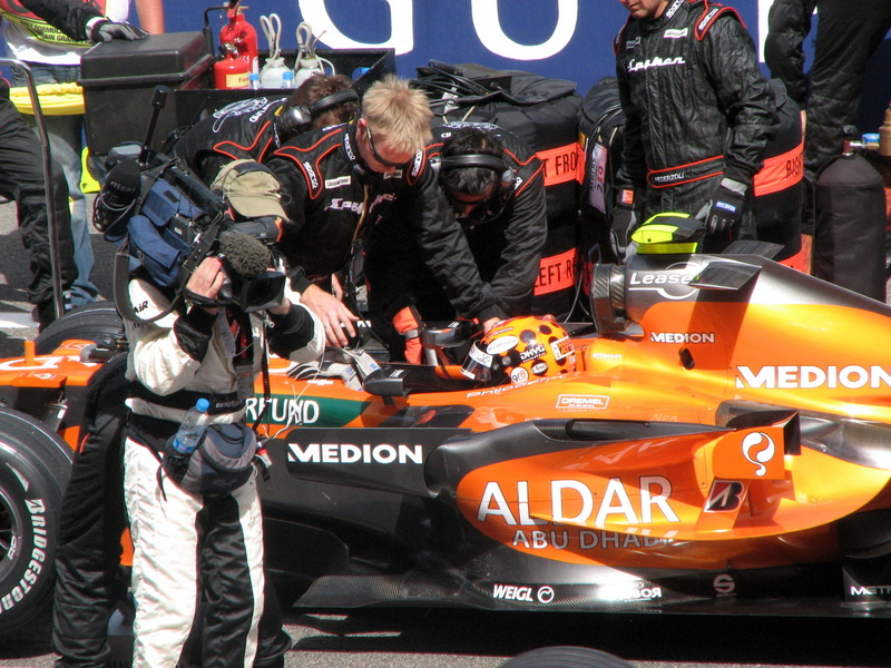 Christijan Albers driving for Spyker F1 at the 2007 Bahrain Grand Prix.